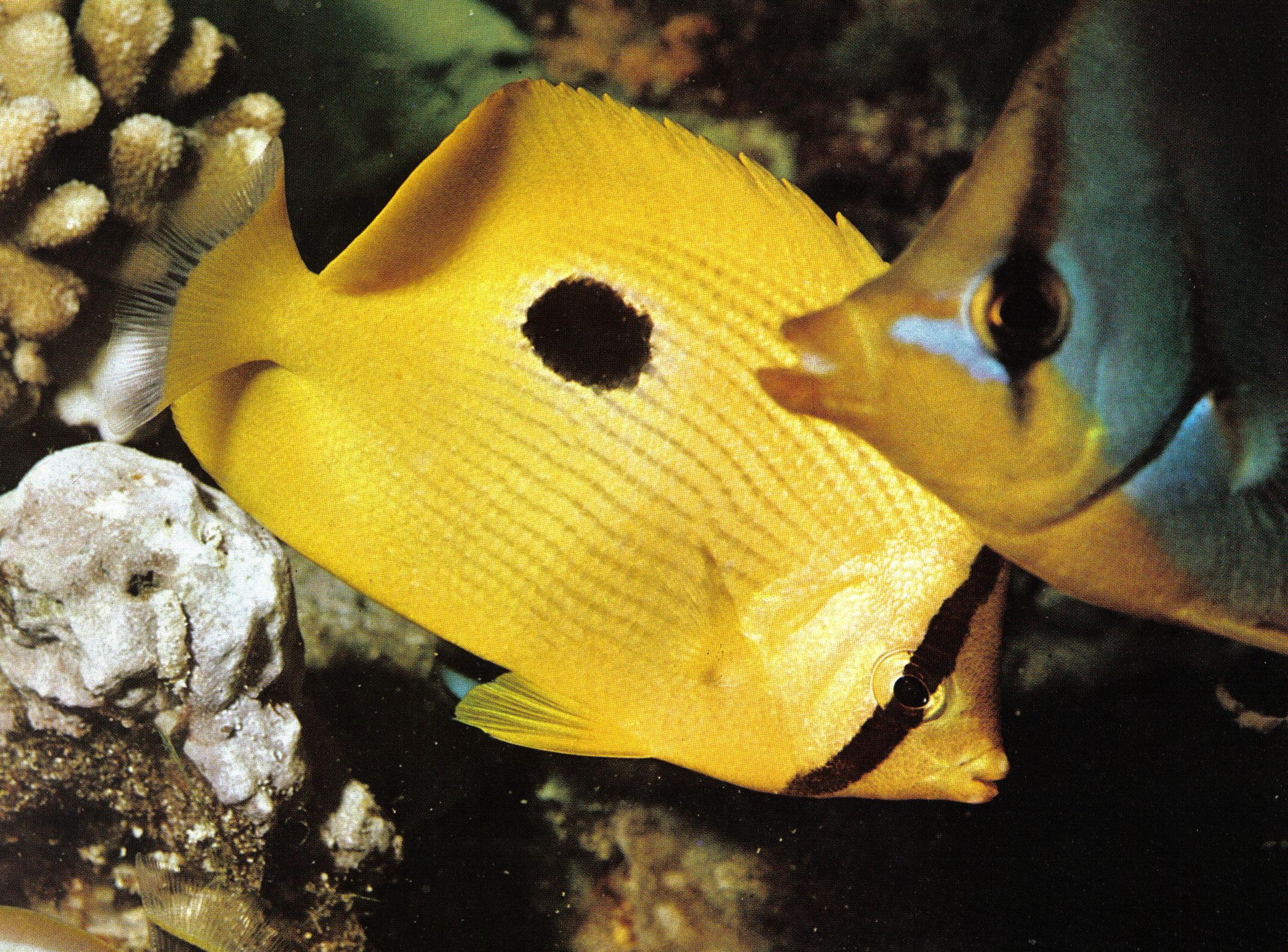 Zanzibar butterflyfish (Chaetodon zanzibarensis), Seychelles